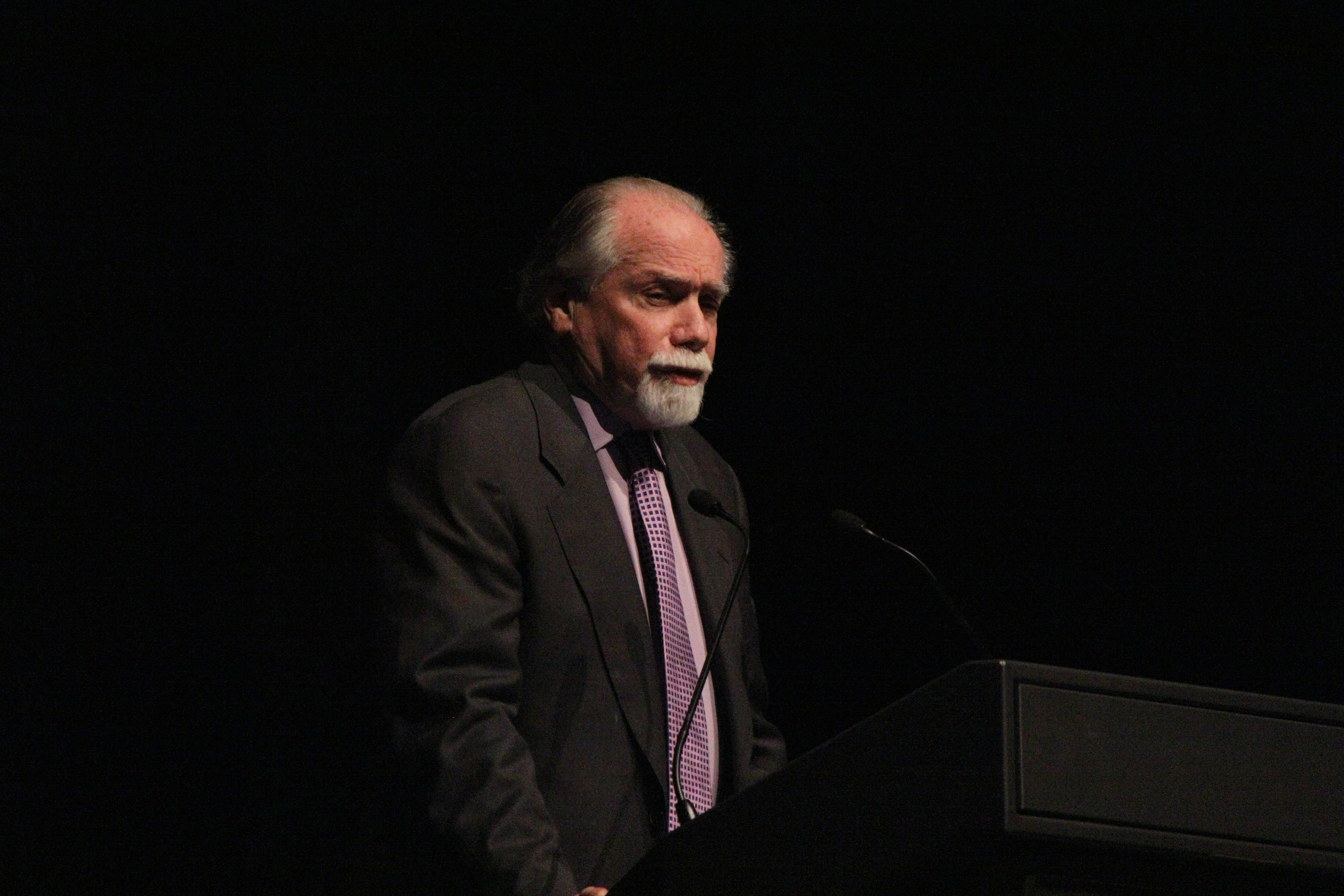 Robert Silverberg at the Hugo Awards ceremony 2010.